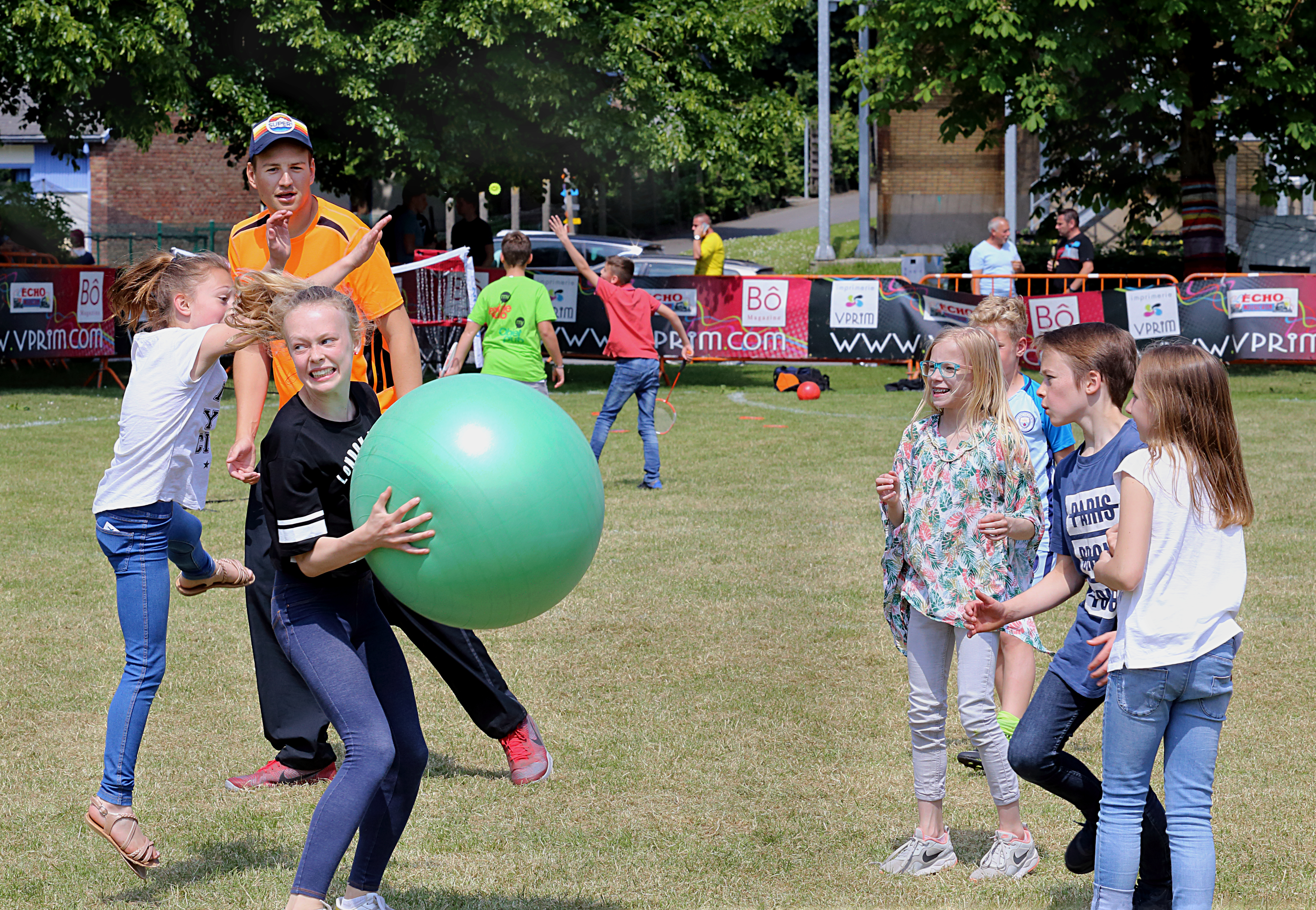 Introduction to Poull ball in Mouscron, Belgique.